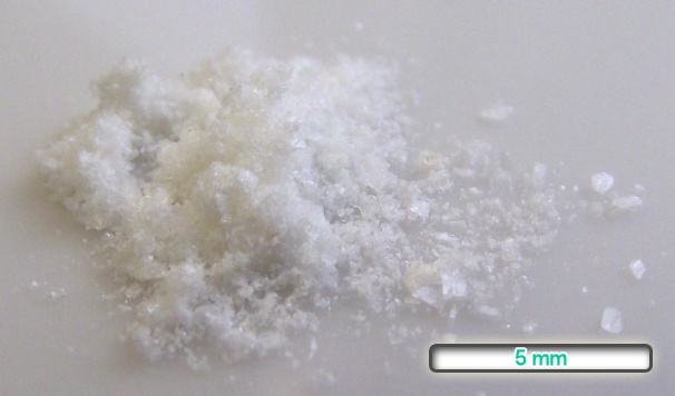 Photo of Aminophenazone, pure